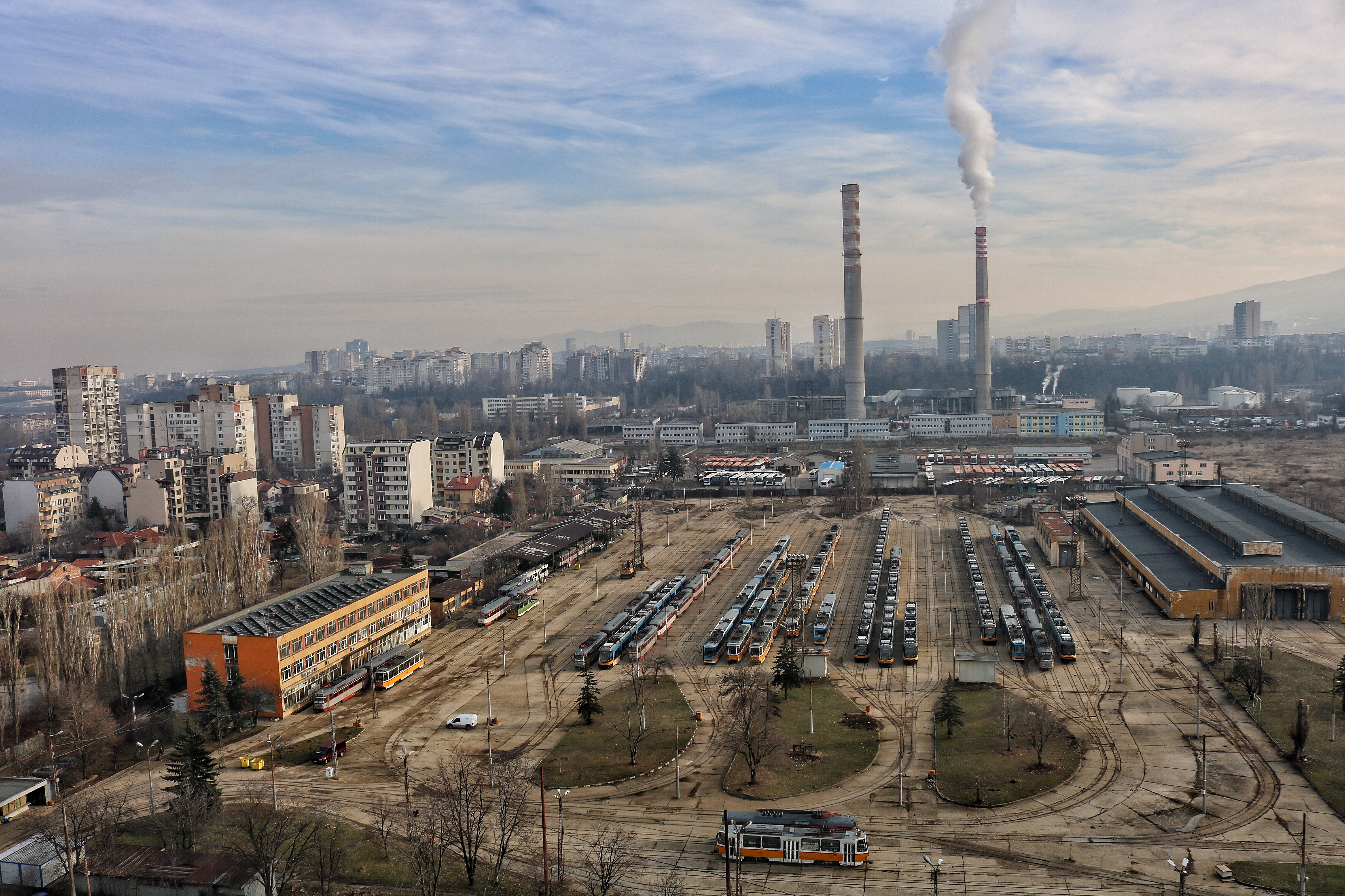 Depo Krasna poljana